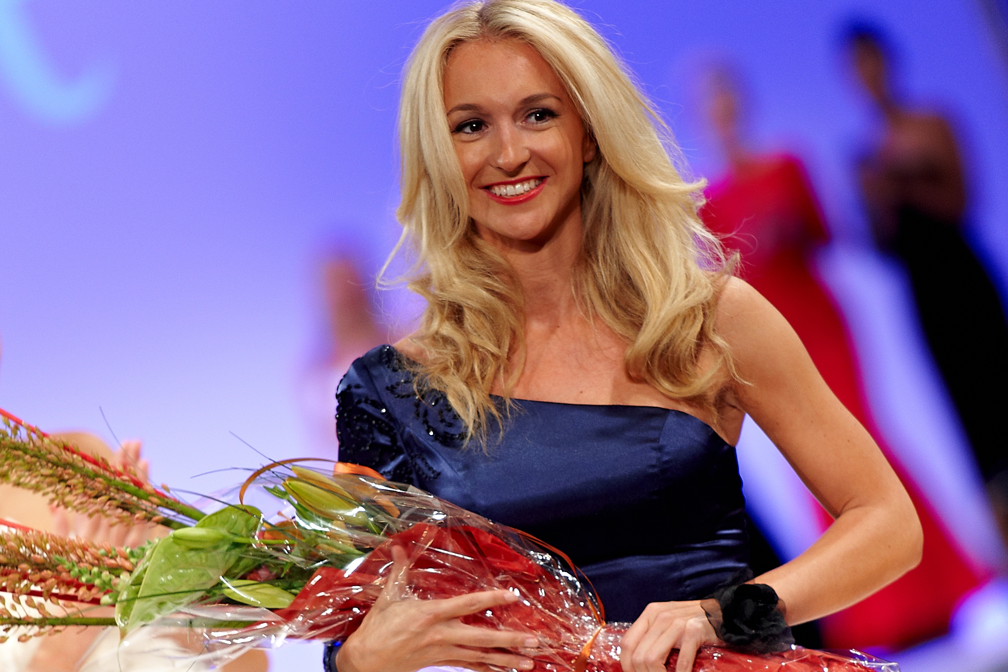 Pia Haraldsen reciving flowers after her debut as a design. During Oslo Fashion Week, Oslo, Norway, aug. 2010.